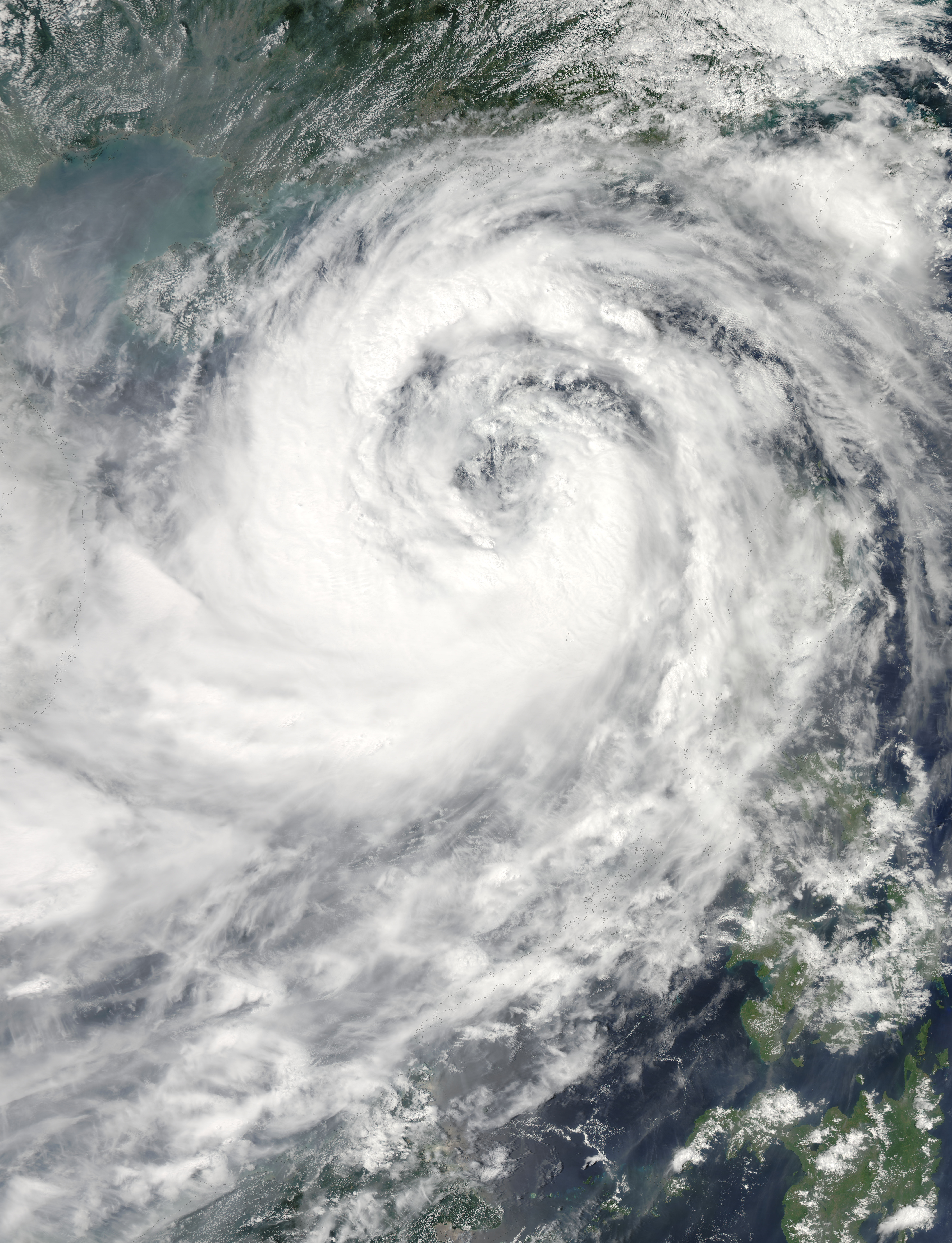 Typhoon Nesat over the South China Sea on September 28, 2011.